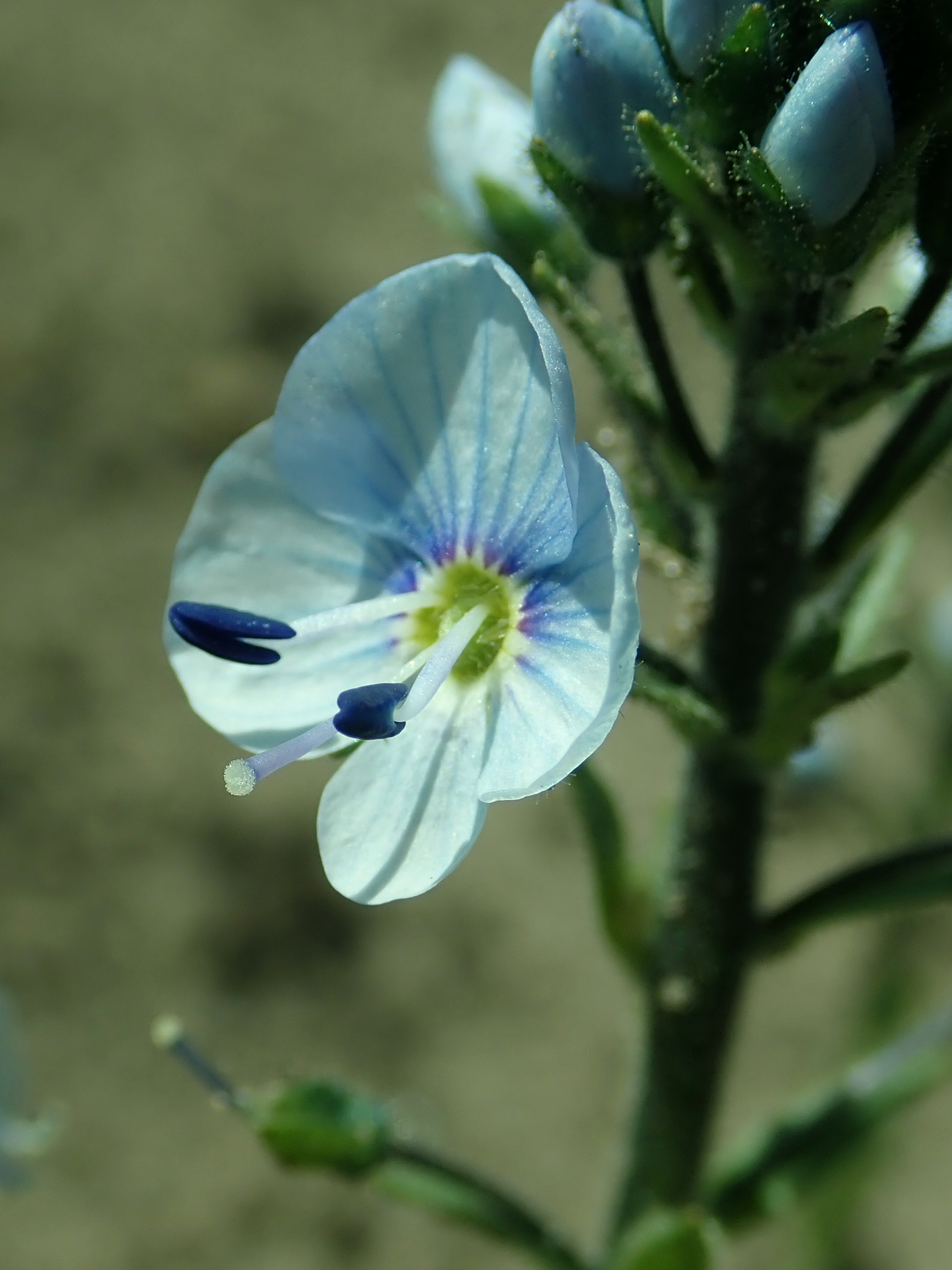 Veronica gentianoides, allotment garden in Szczecin, West Pomeranian Voivodeship, Poland.